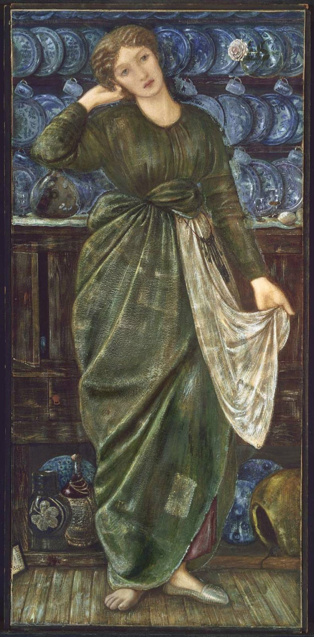 Cinderella (watercolour, 1863)